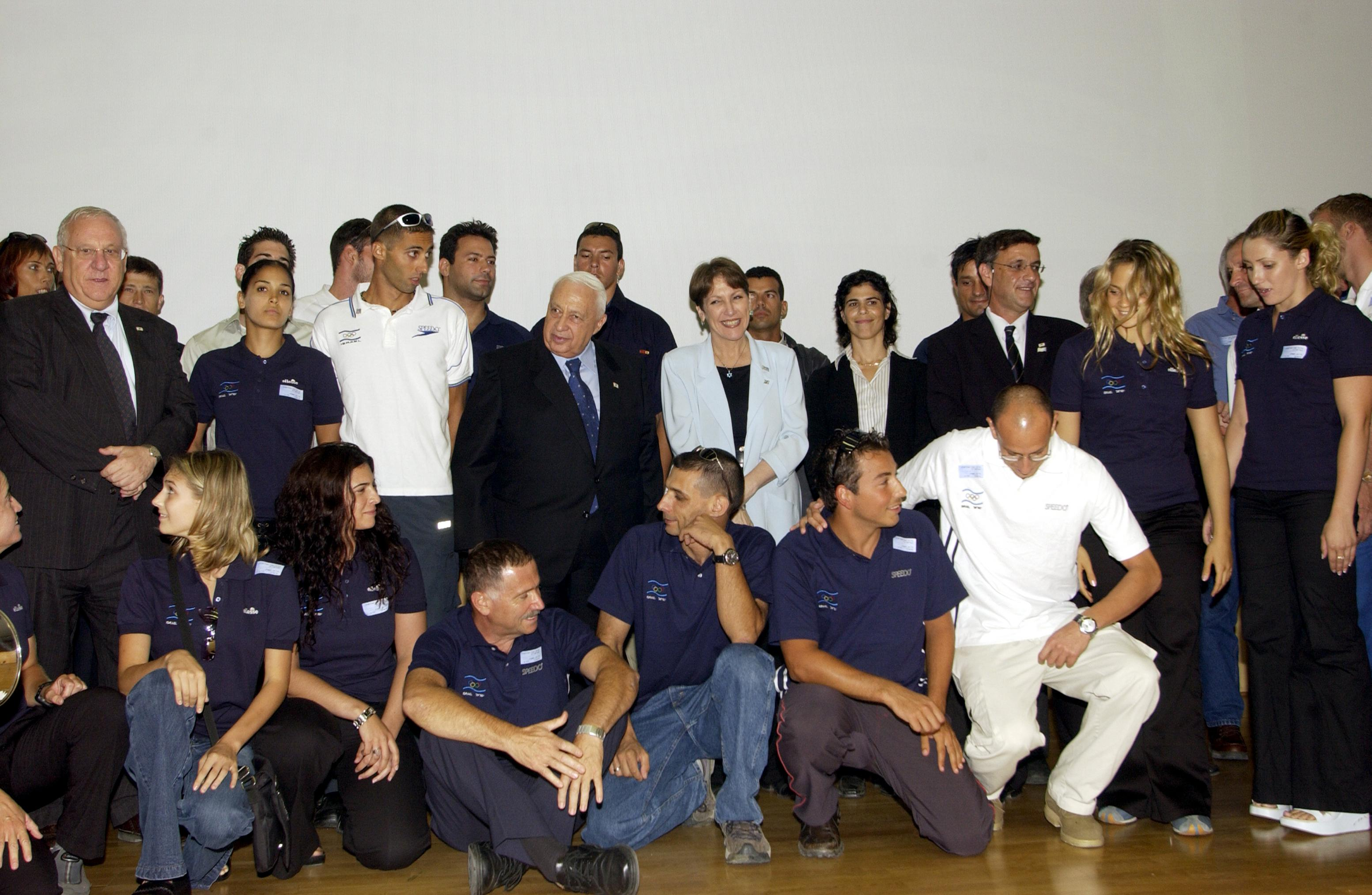 Prime Minister Ariel Sharon and Education Minister Limor Livnat in a group photo with the Israeli Delegation to the 2004 Olympic Games in Athens. ראש הממשלה, אריאל שרון ושרת החינוך לימור לבנת בתמונה קבוצתית עם משלחת ישראל 2004 לקראת המשחקים האולימפיים באתונה. Photo: Moshe Milner (1946–) Alternative names Miylner, Moše; Milner, Mosheh; Moshé Milner; Milner, M.; Mîlner, Moše; Miylner, MošehDescriptionIsraeli photographerצלם ישראליDate of birth 1946 Location of birth Germany Authority control : Q28750411 VIAF: 100999744 ISNI: 0000 0001 0804 0507 LCCN: n82072104 GND: 115699732 BNF: 15548788n WorldCat creator QS:P170,Q28750411 , 13/08/2003.